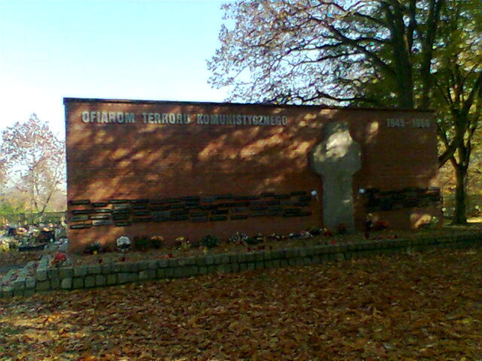 Osobowicki Cemetery in Wroclaw, remembrance wall 1945-56